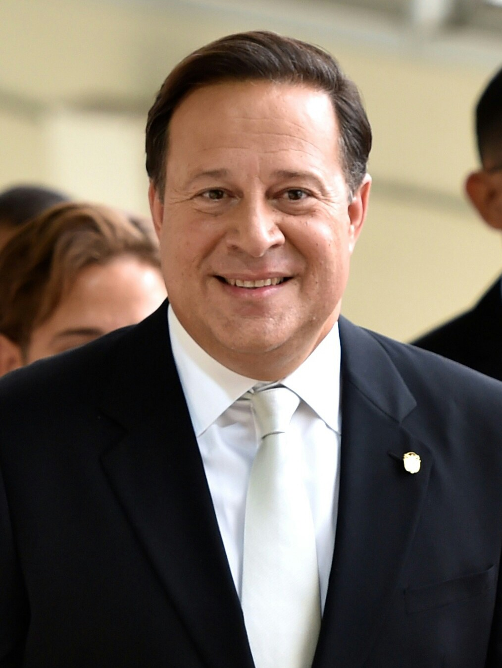 Juan Carlos Varela, President of Panamá